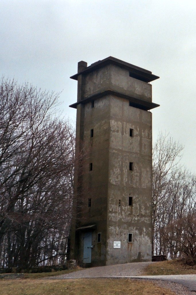 WWII Vintage observation tower. Found up and down Maine coast. Towers also on Jewel Island and Appledore.